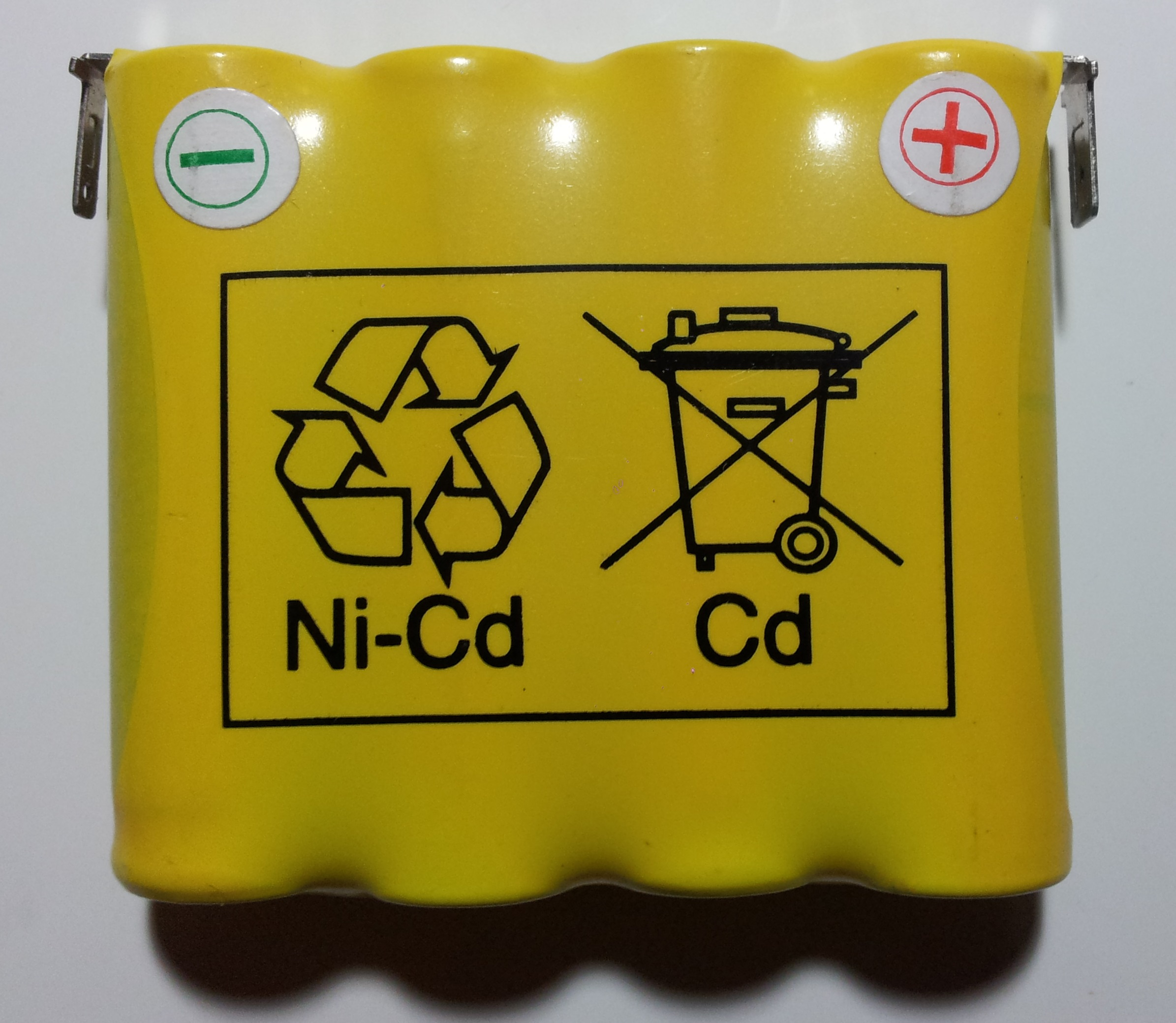 A Nickel-cadmium accumulator with recycling pictograms. This accu-pack consists of four AA cells.